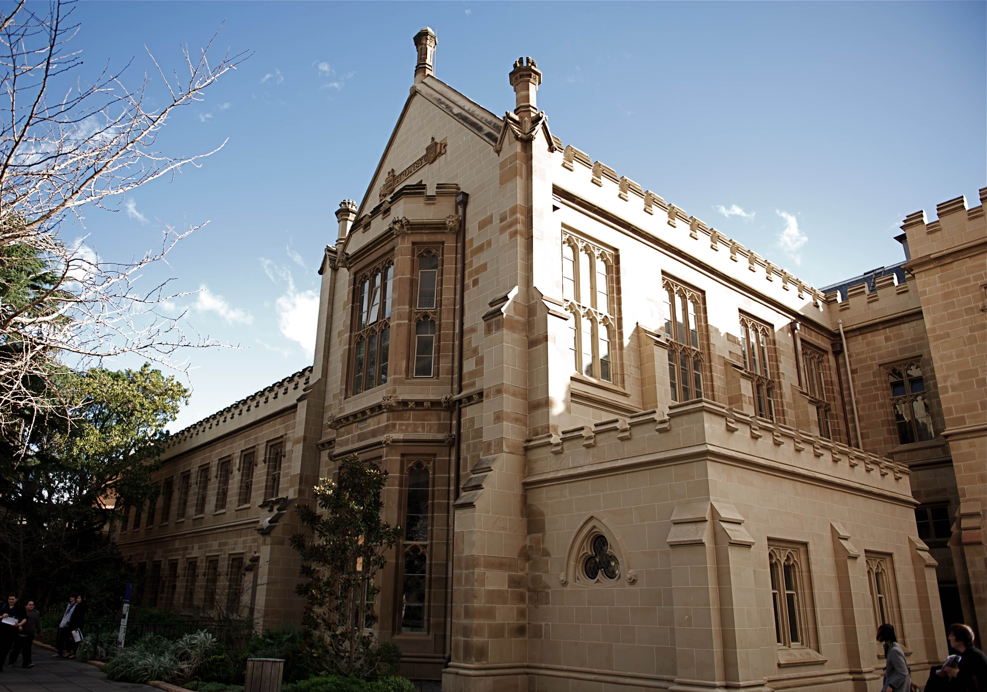 University of Melbourne open day